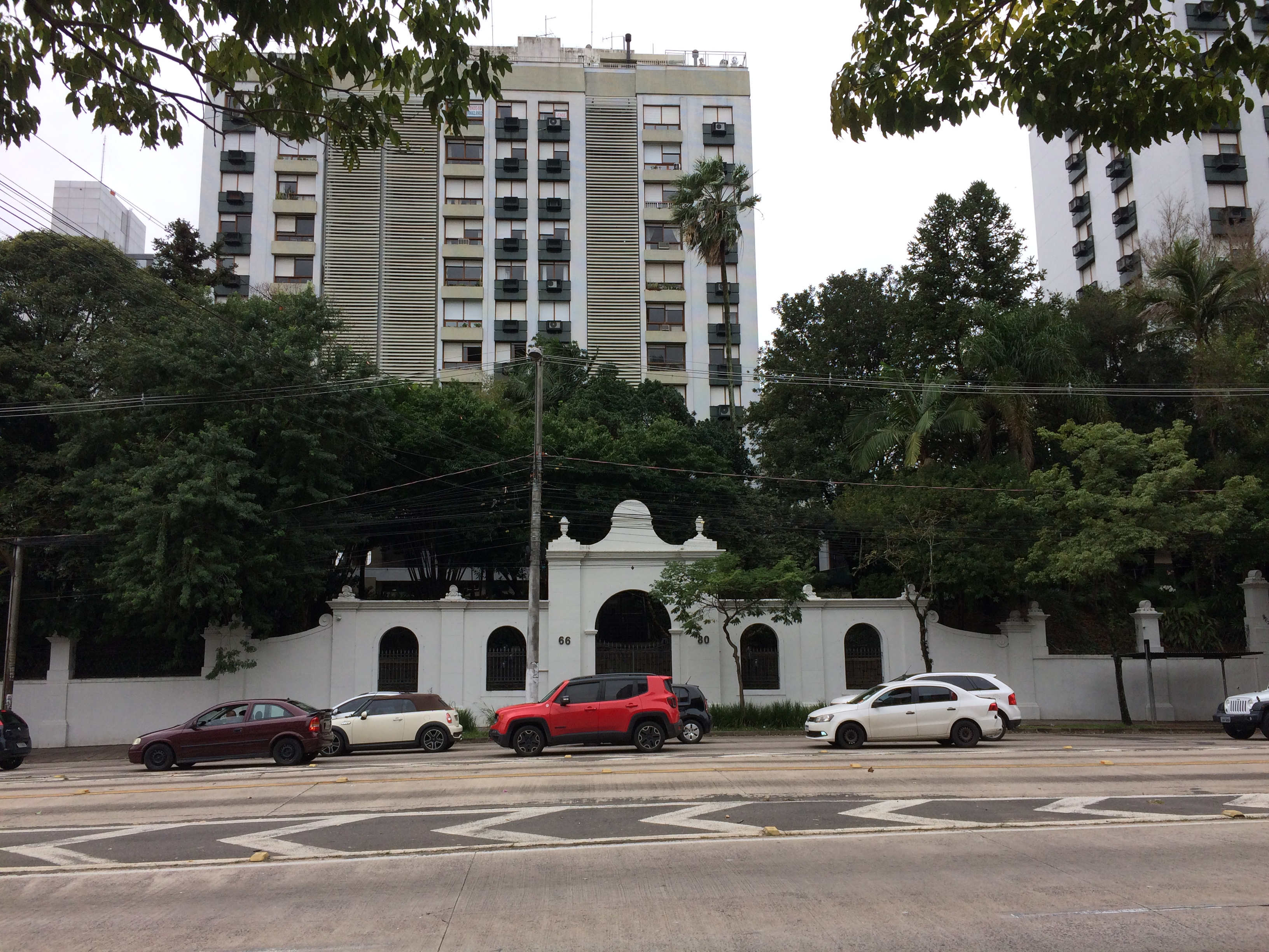 Old wall in Porto Alegre.